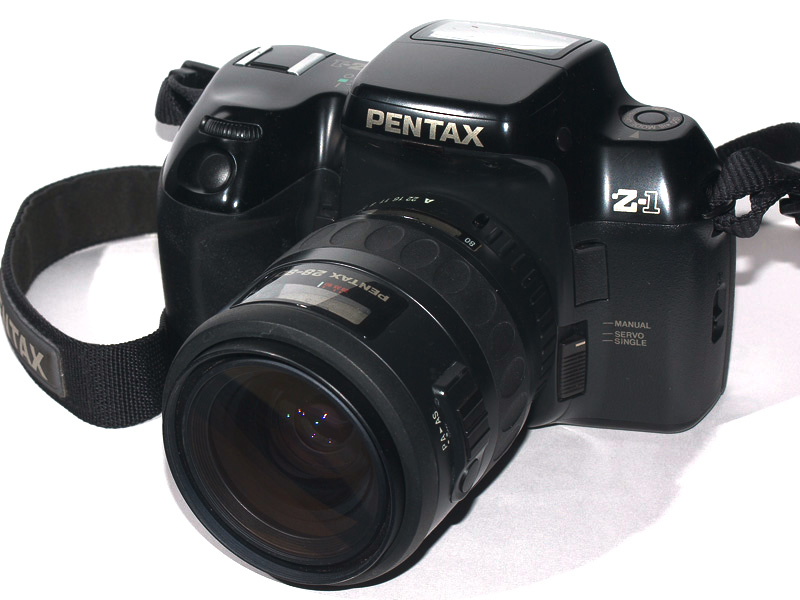 SLR-camera Pentax Z-1